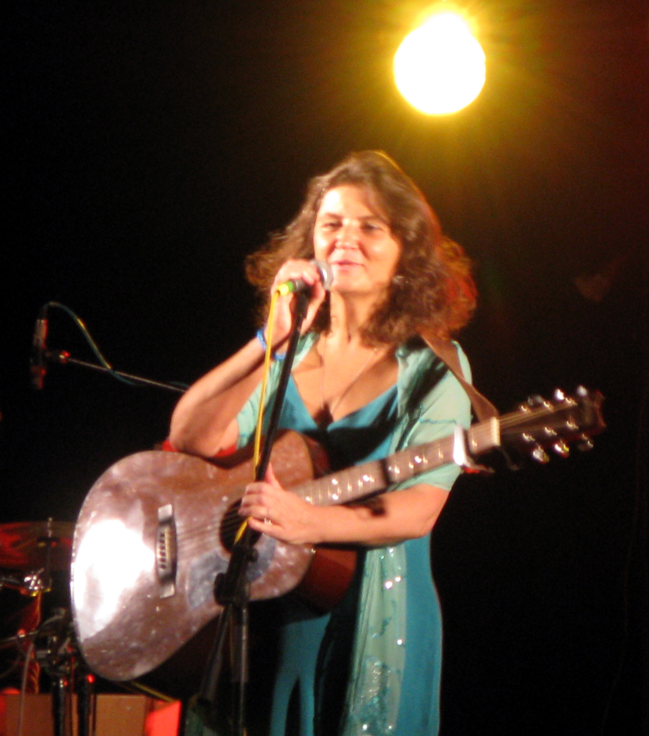 Antonina Krzysztoń